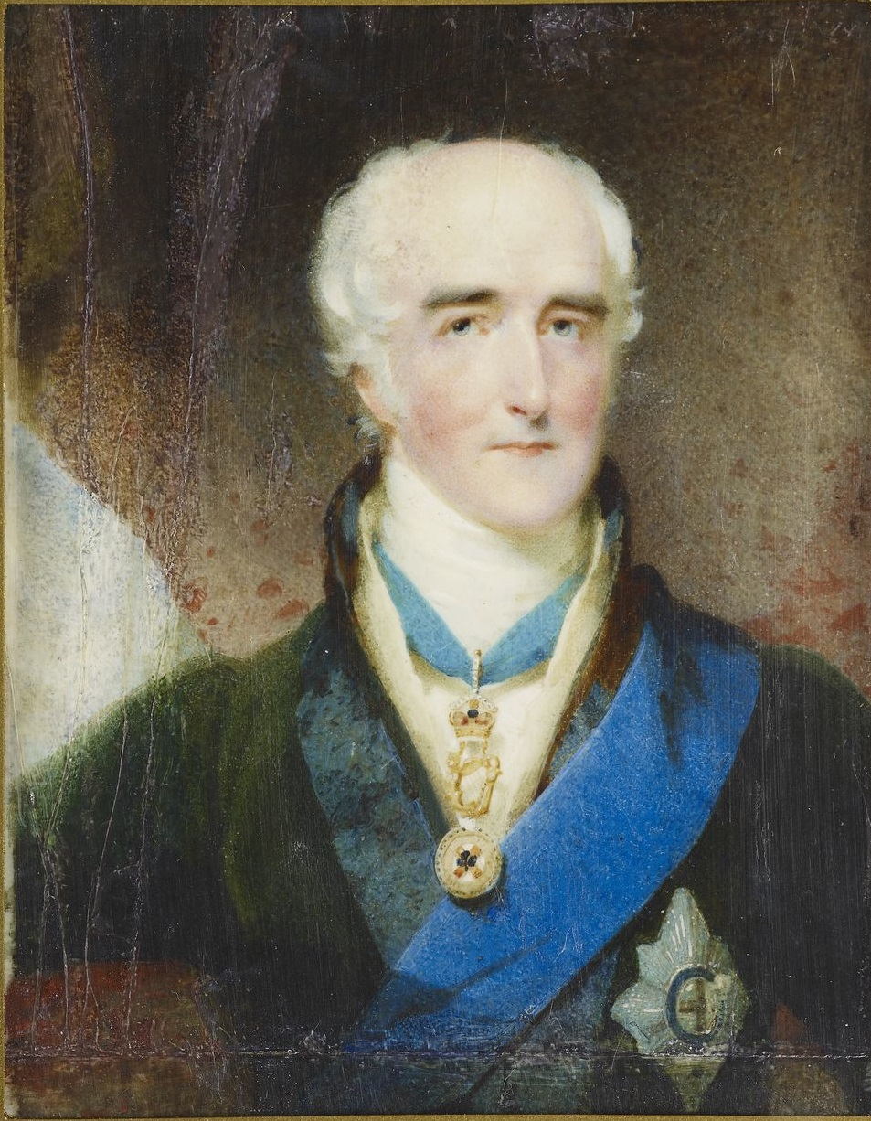 Watercolour on ivory laid on card, 1826